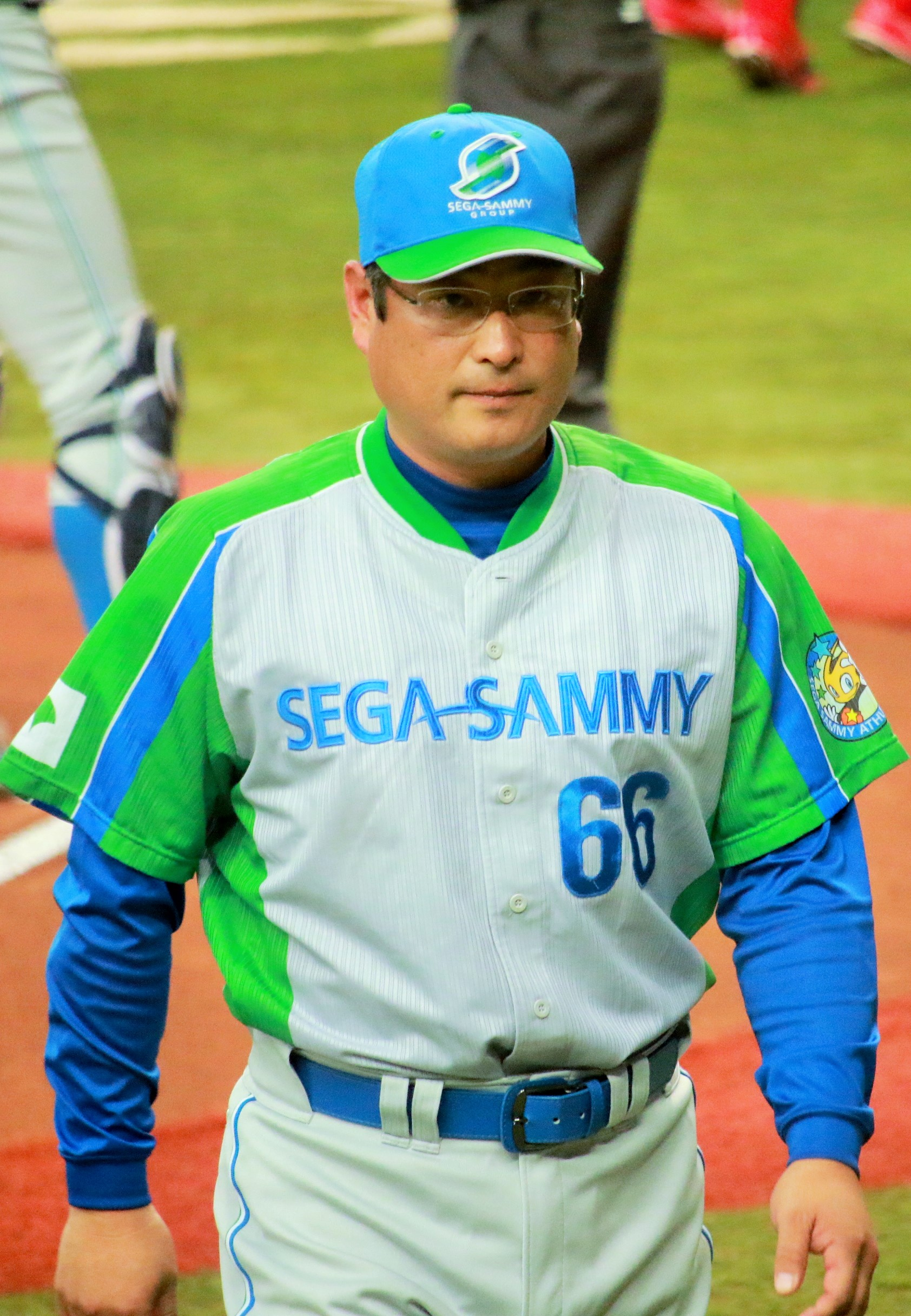 Kiyoshi Hatsushiba, manager of the Sega Sammy Baseball Club, at Osaka Dome.